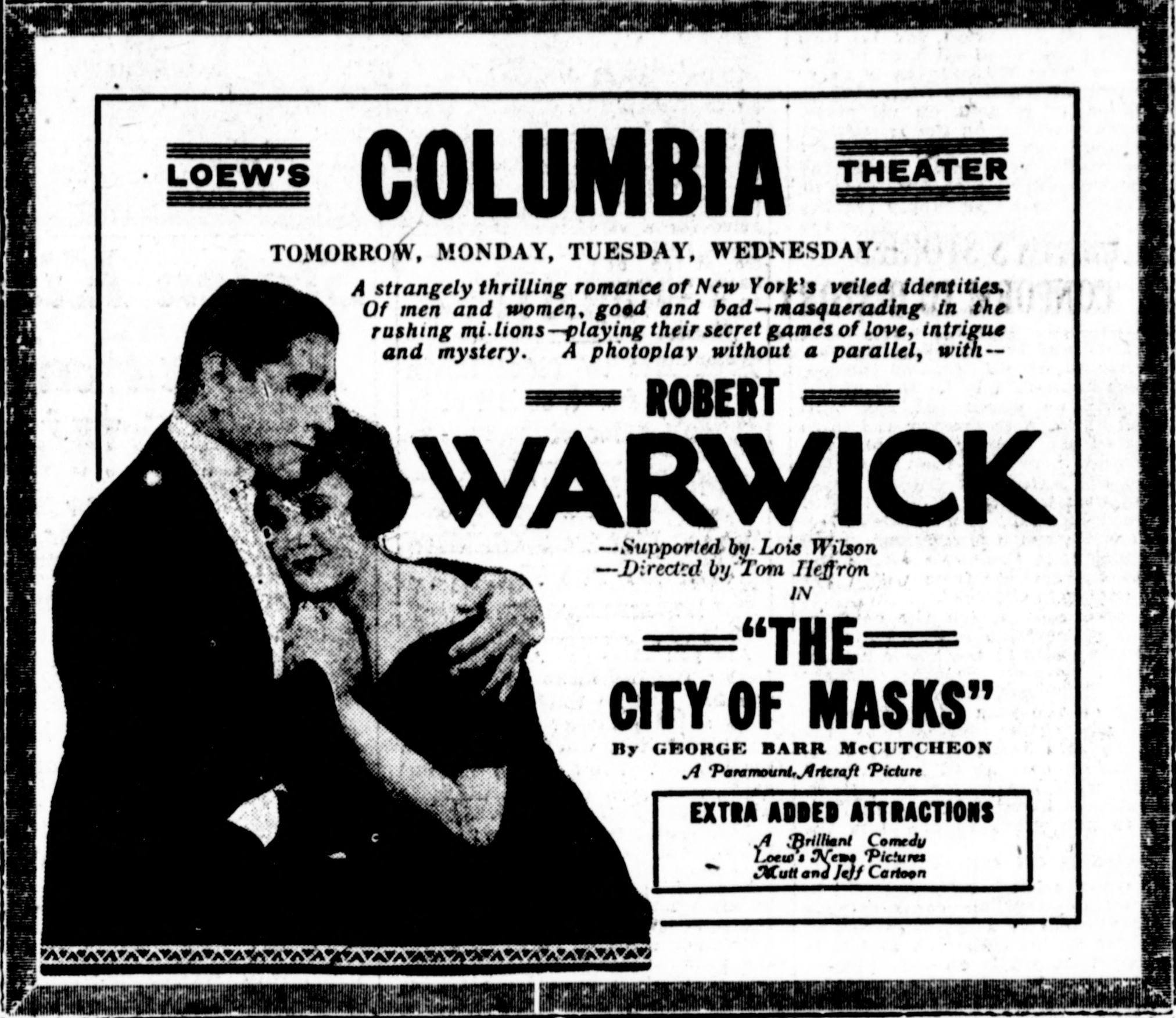 The City of Masks is a lost 1920 silent film comedy-drama produced by Famous Players-Lasky and distributed by Paramount Pictures. This is a newspaper advertisement for the film.